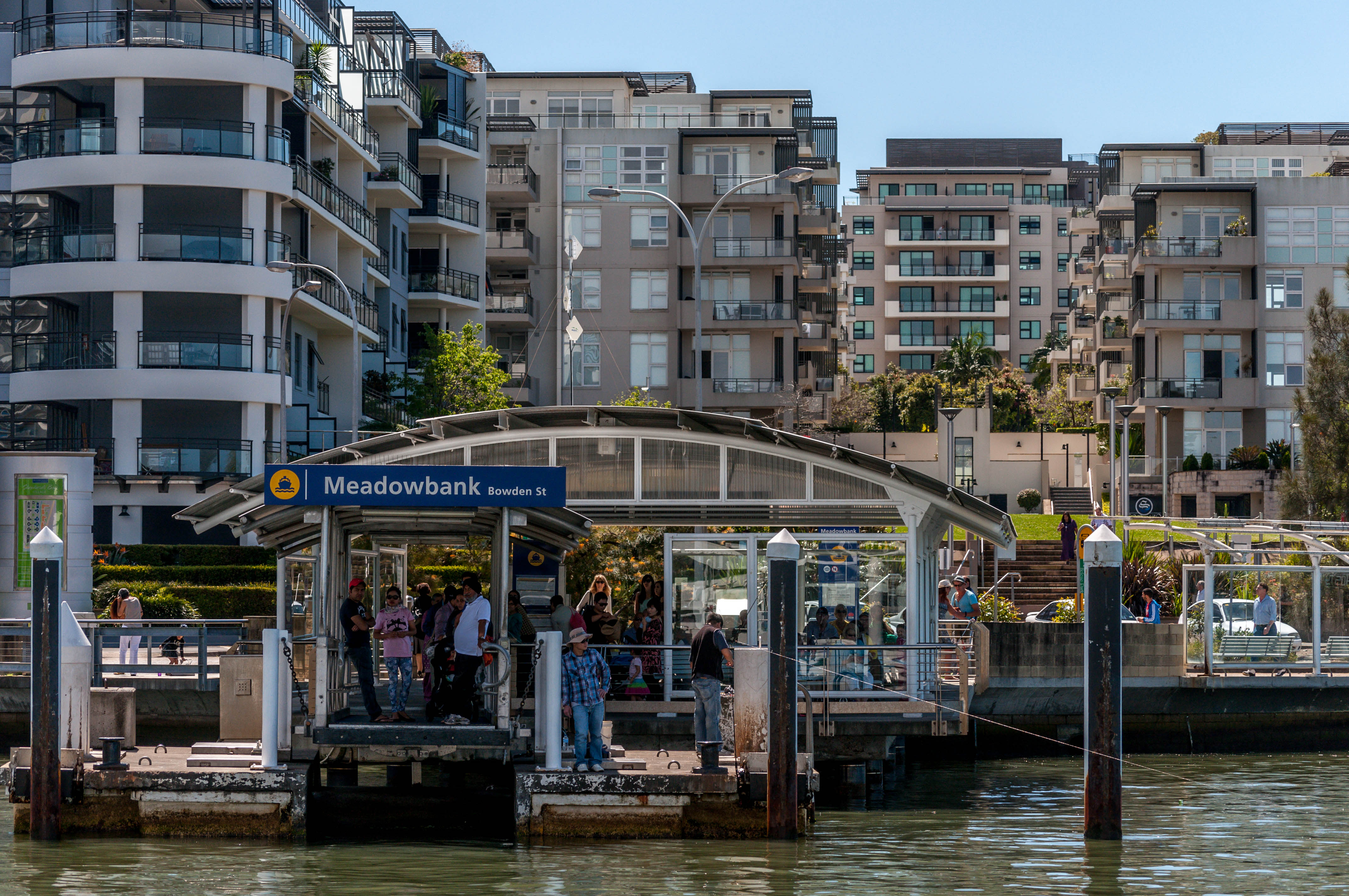 Meadowbank Wharf, Parramatta River